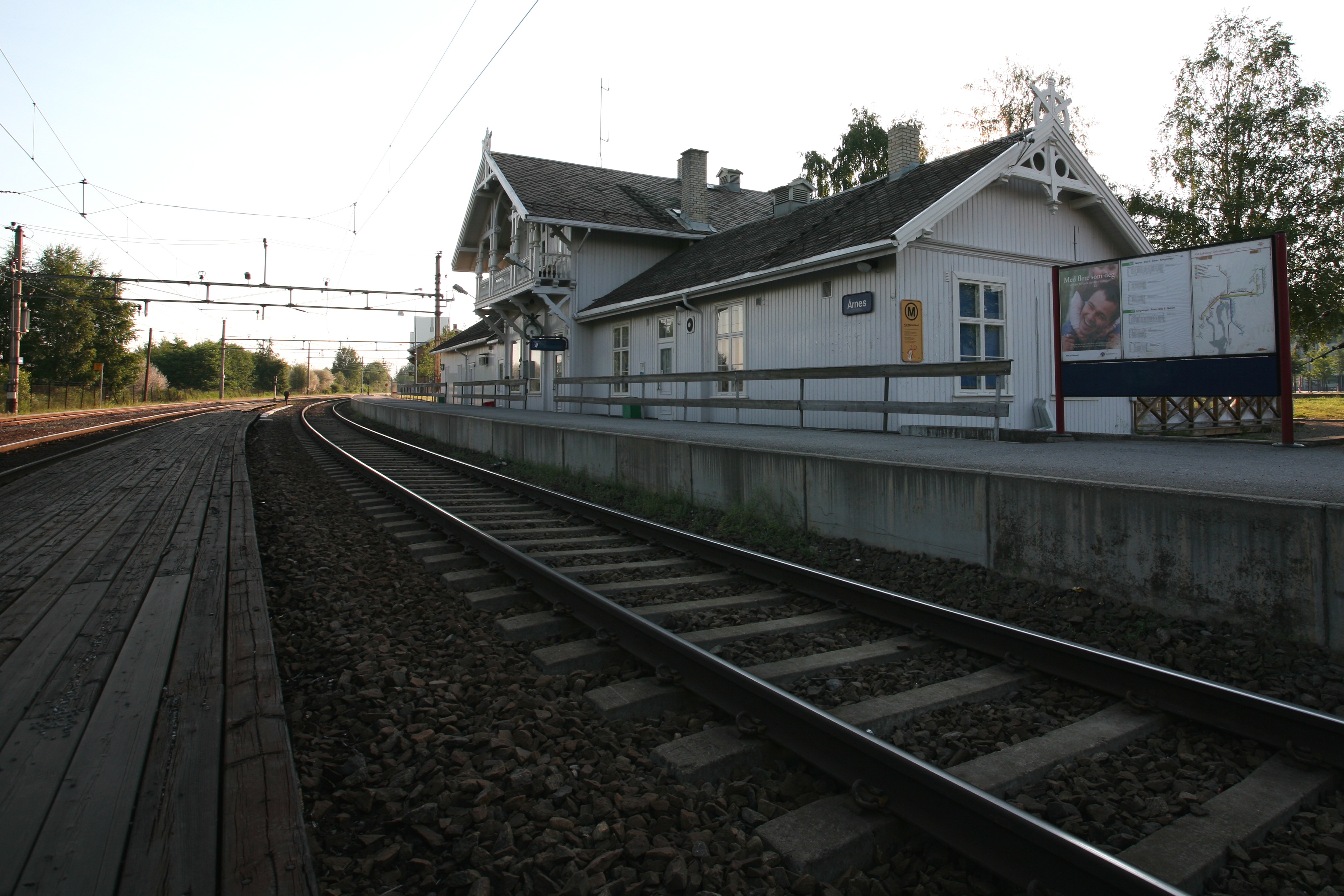 Picture of Årnes Railway Station (Norway)